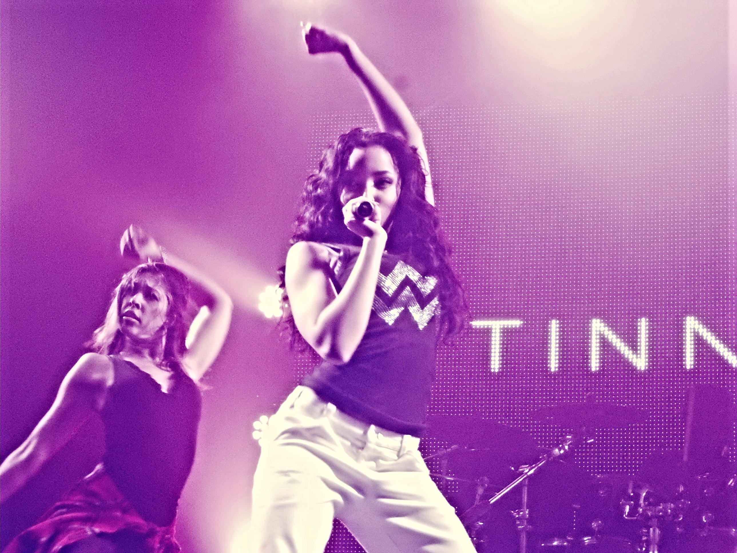 Tinashe, Heaven, London